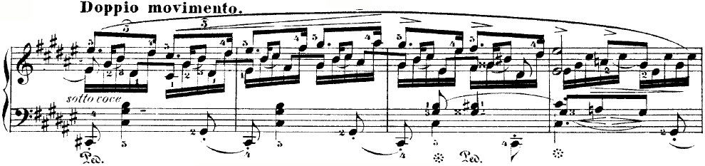 Second theme of Chopin's Nocturne Op 15, No 2